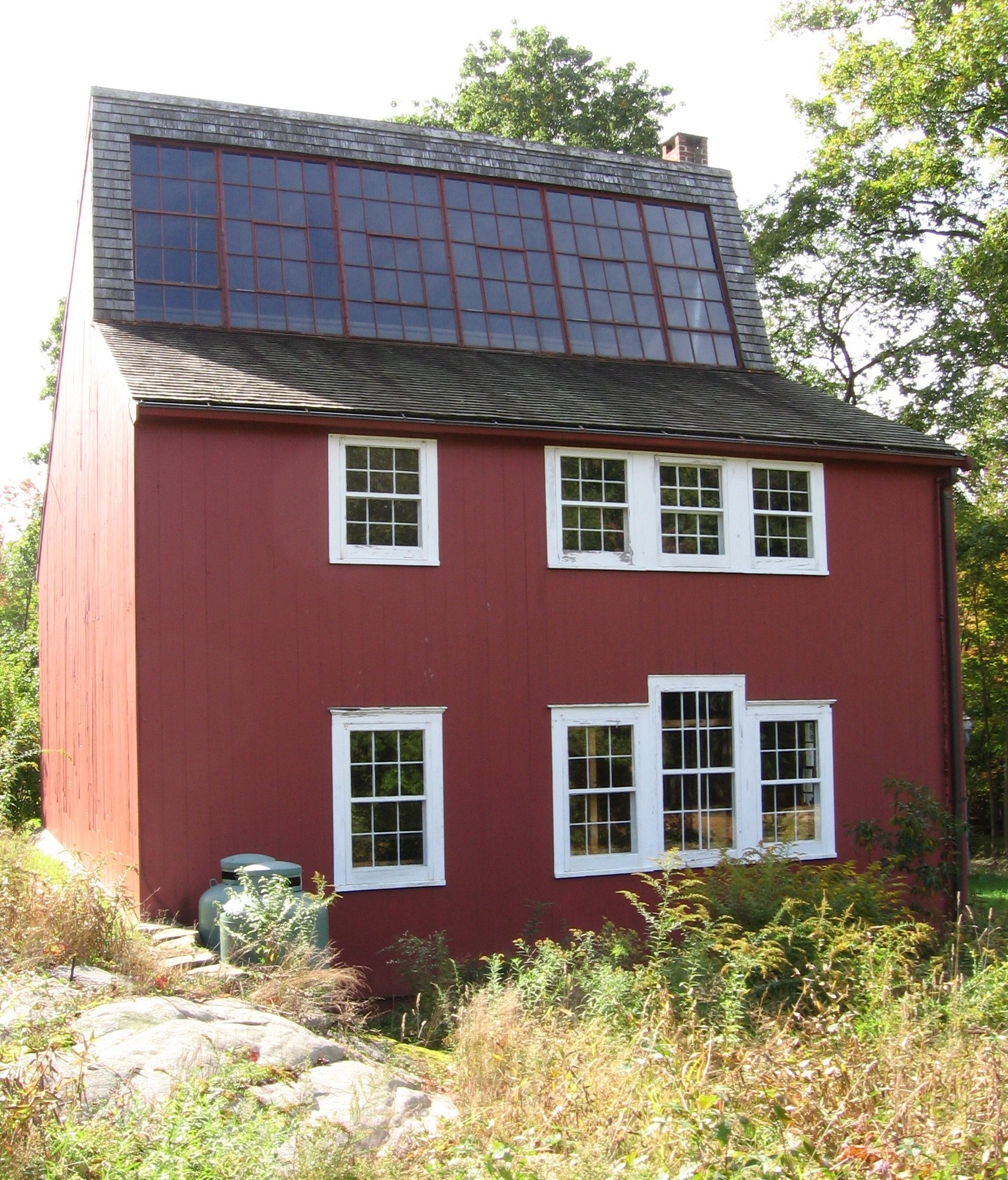 Studio of sculptor Mahroni Young in the Branchville section of Ridgefield, Connecticut, just north of the border of Wilton, Connecticut (which the Wier Farm crossed into). Young married the daughter of painter J. Alden Wier and built his sculptor studio next to Wier's studio on the property. View from the northwest, looking southeast